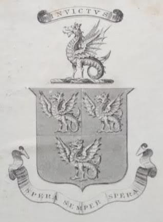 Coat of arms of Loxley of Norcott Court, Herts